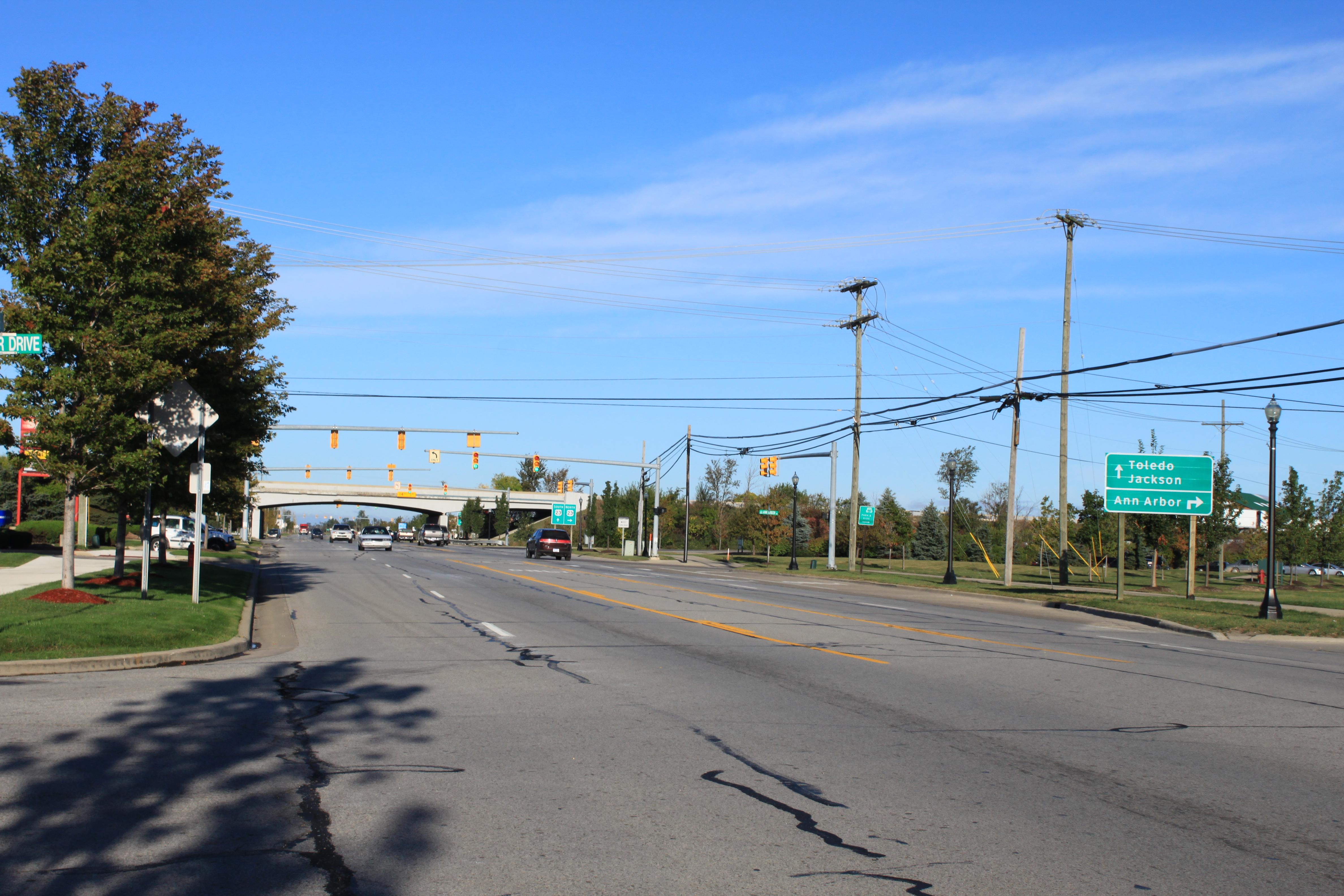 Intersecton of M-50 and US 23, Dundee, Michigan